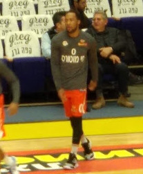 Maccabi Tel Aviv B.C. vs Ironi Nes Ziona B.C. (03) - 25 March 2019